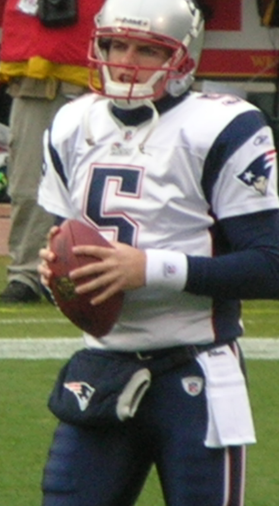 New England Patriots quarterbacks Matt Cassel (left) and Kevin O'Connell on the field prior to an away game against the Oakland Raiders. The Patriots won 49-26.